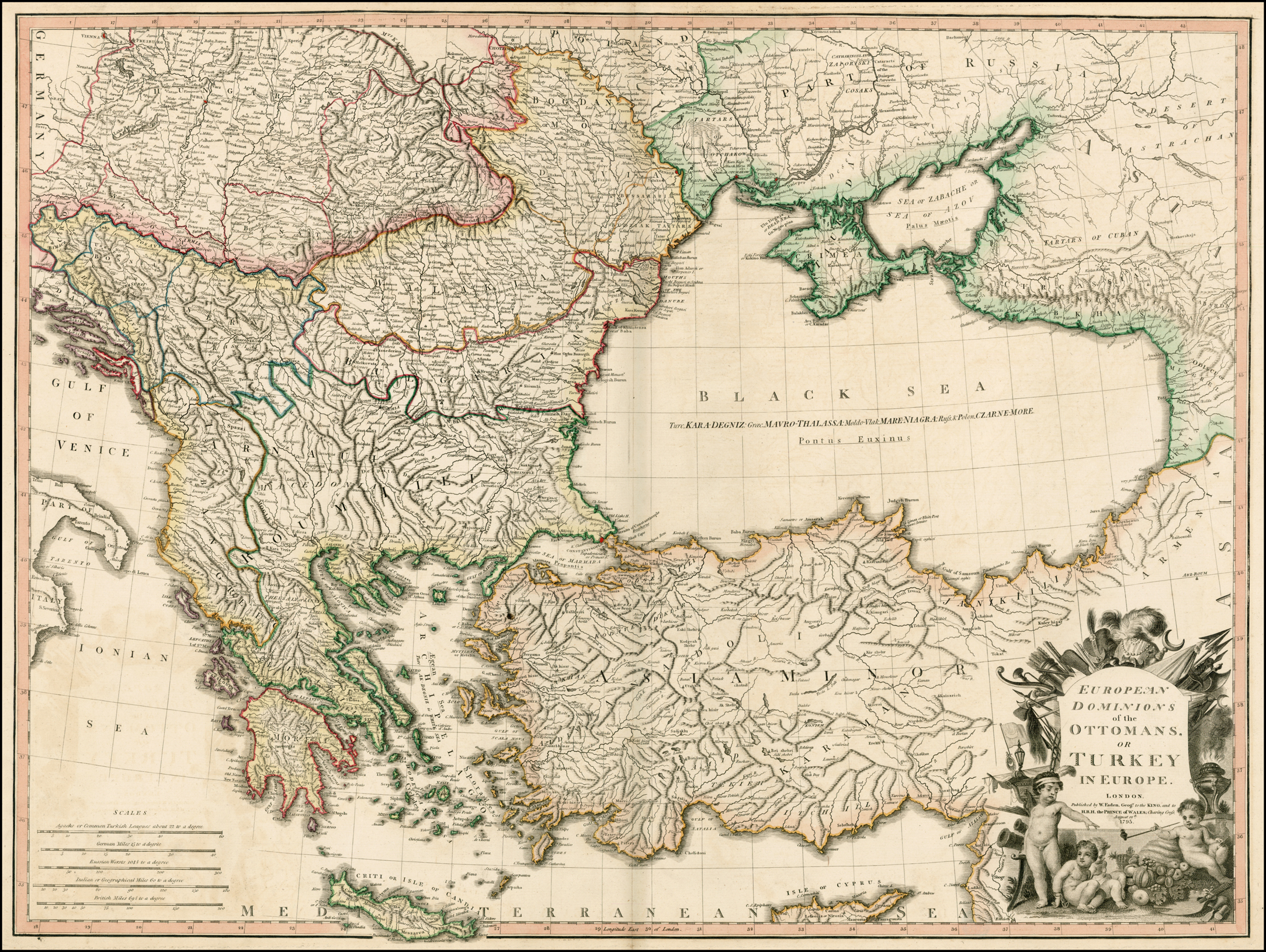 European Dominions of the Ottomans or Turkey in Europe . . . 1795. Large detailed Faden map of the region bounded by the Greece and the Ionian Sea, the Ukraine, the Gulf of Venice, Asia Minor and the northern coast of Cyprus. Extremely detailed. The map shows the Ottoman Empire, circa 1720 and includes and ornate decorative cartouche. This is the first state of the map.